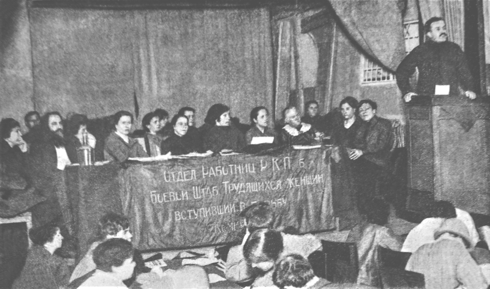 Vyacheslav Molotov speaks at the meeting of peasant women. Moscow 1925